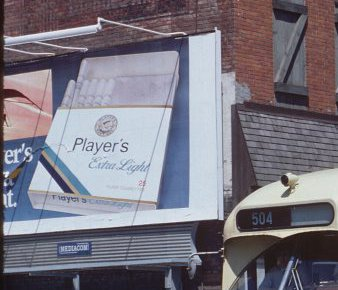 Cropped to show the pack of Player's cigarettes in Toronto, ca. 1980. Shown on a billboard.